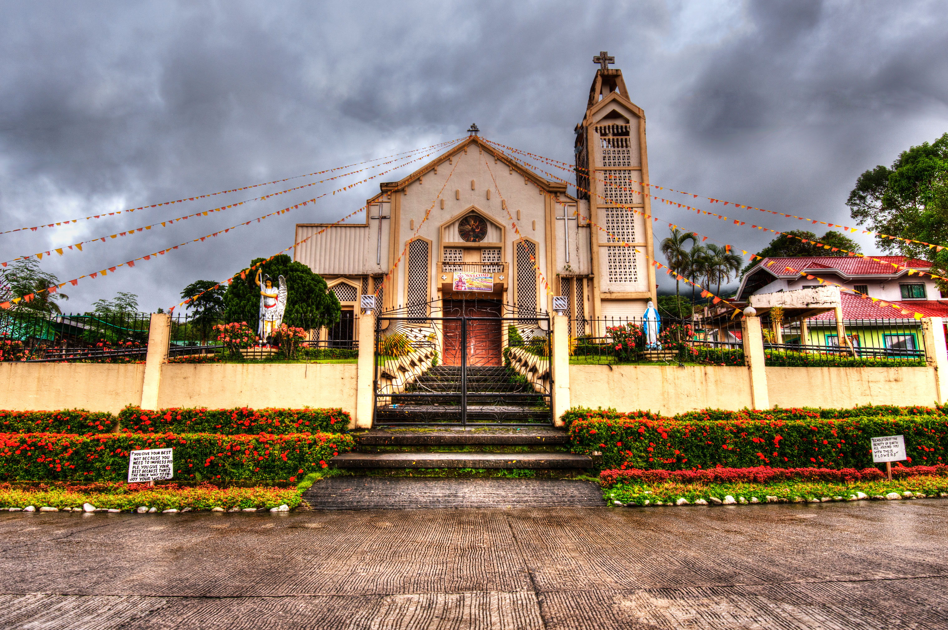 St. Michael Paris Church, Pintuyan, Southern Leyte, Philippines